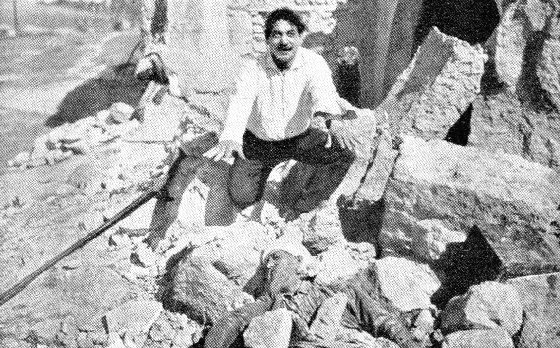 Giovanni Grasso in Capitan Blanco _Martoglio - Morgana Film - 1914